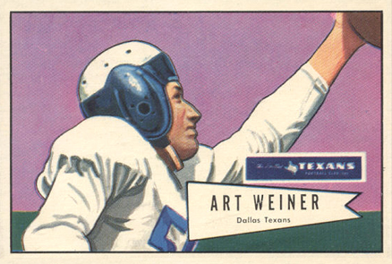 American football player Art Weiner on a 1952 Bowman Large card.